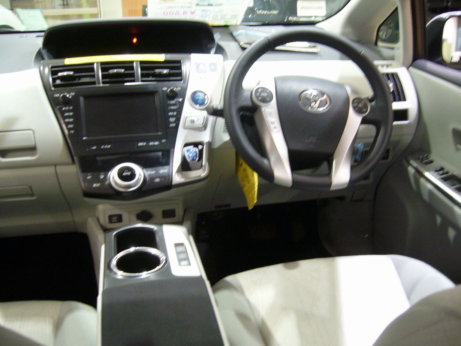 TOYOTA PRIUS ALPHA